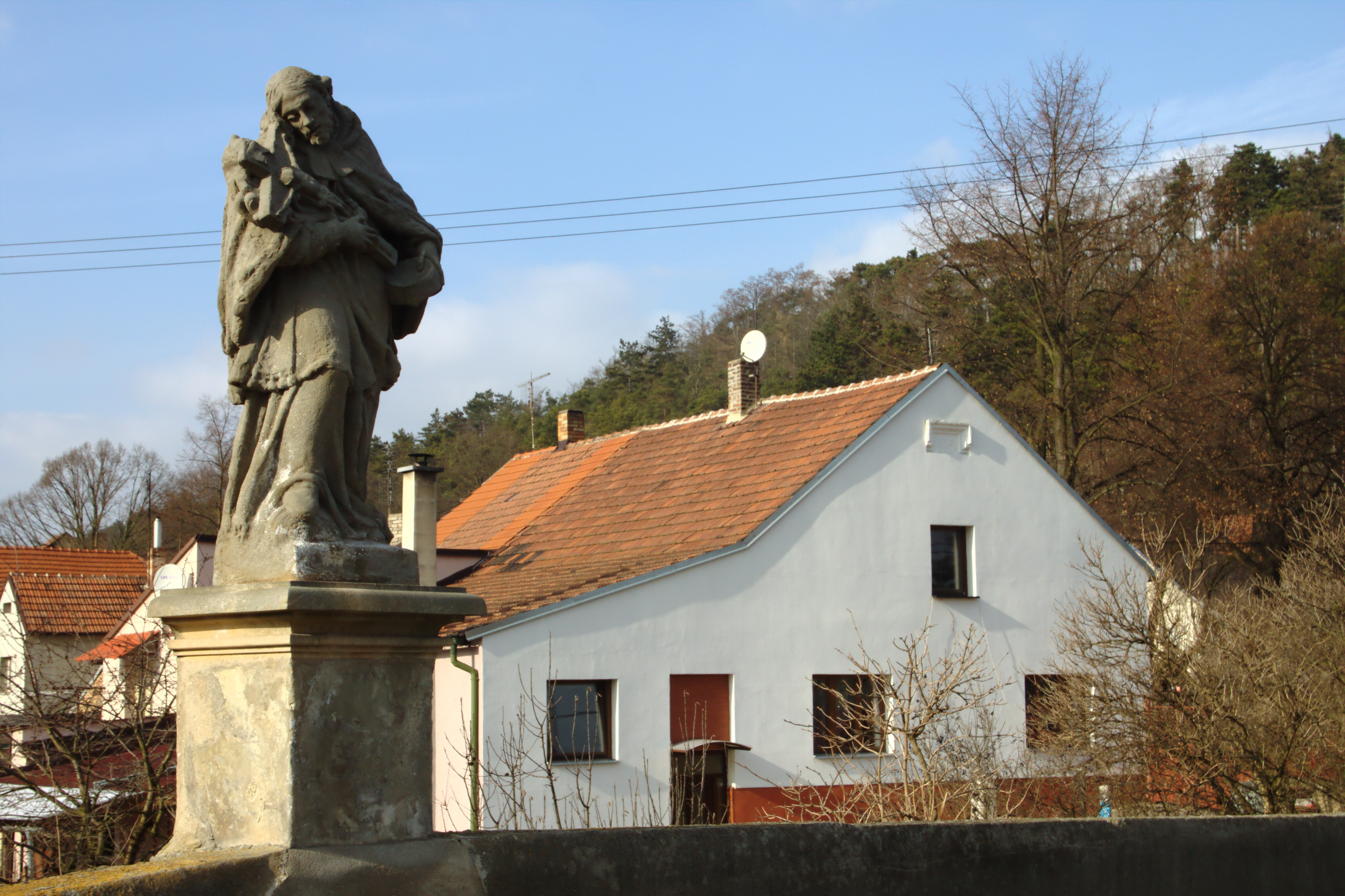 A statue on a bridge crossing some local creek in Sazená, a town in Kladno District, Central Bohemian Region, CZ